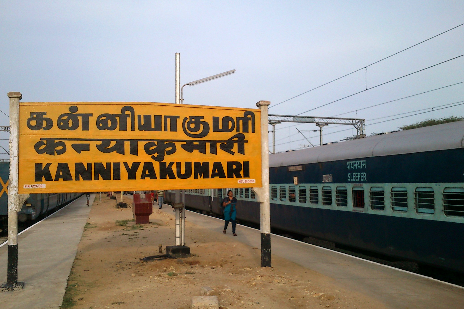 This media file is uploaded with Malayalam loves Wikimedia event - 3.